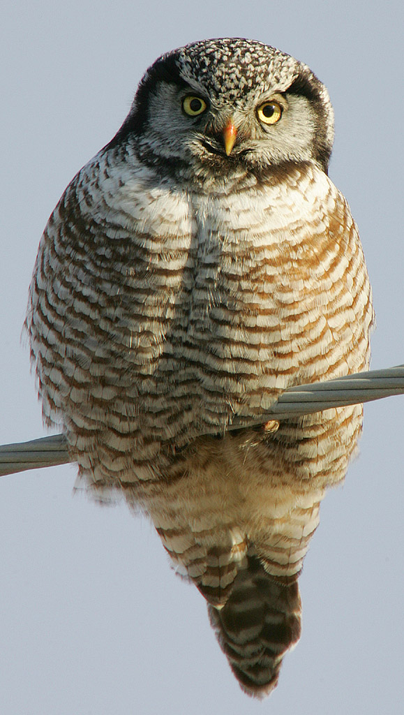 From the English Wikipedia. Originally uploaded by User:Mdf. Original description: Northern Hawk Owl -- Welcome, Ontario (Canada) 2005